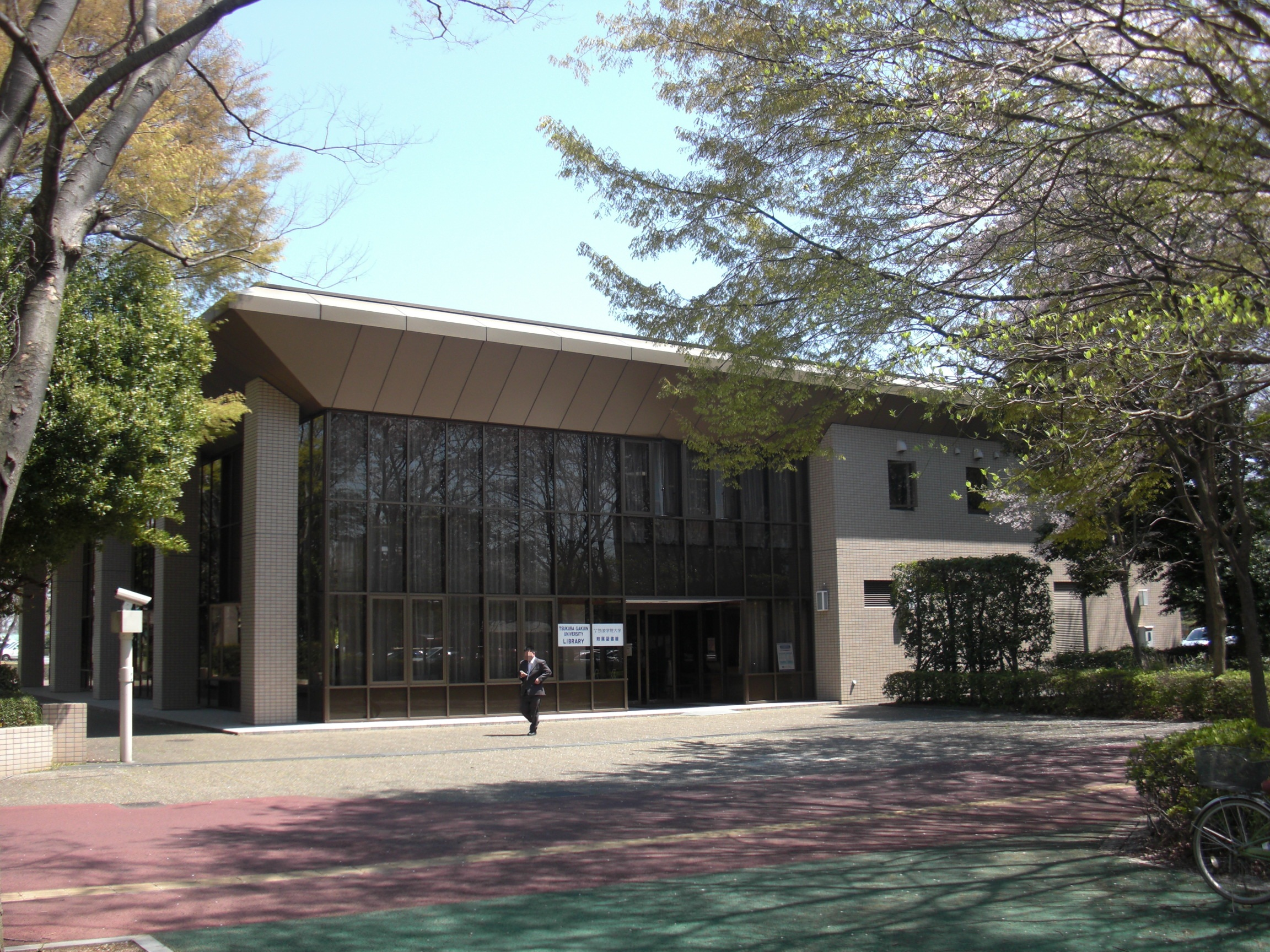 This is an university library in Japan.